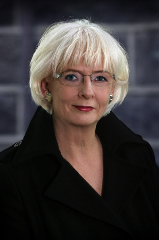 Jóhanna Sigurðardóttir, Icelandic government minister